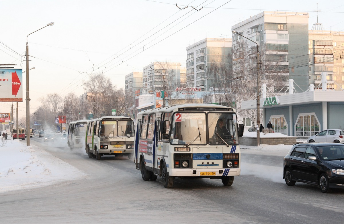 PAZ buses in Tomsk.